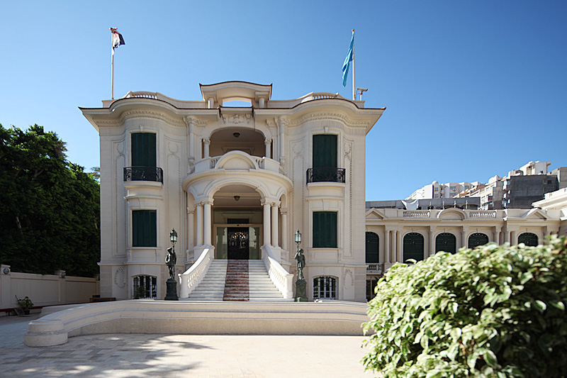 Left wing of the Royal Jewelry Museum, Palace of Fatima al-Zahra', Alexandria, Egypt